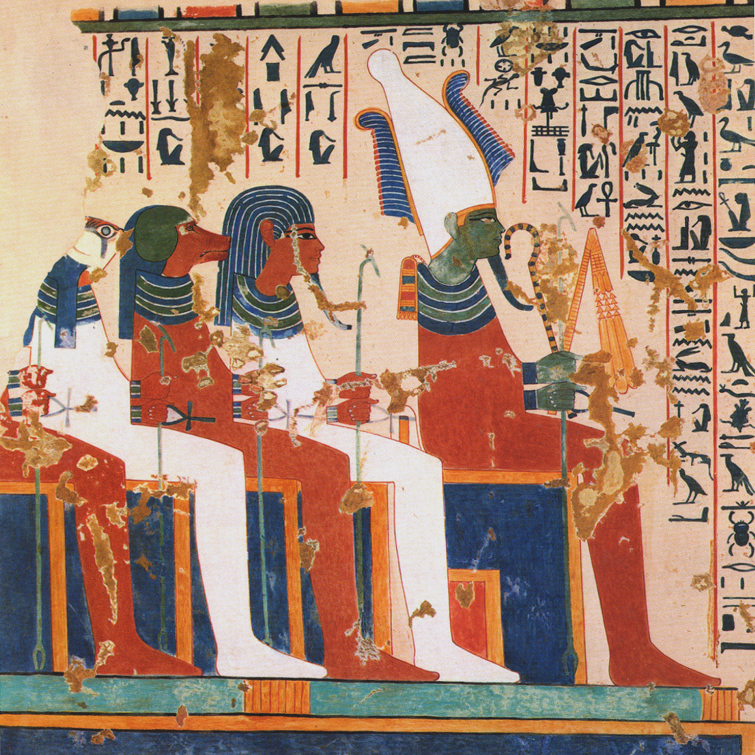 Facsimile, Nebamun (TT 181), Ipuky, Osiris, Fours Sons of Horus